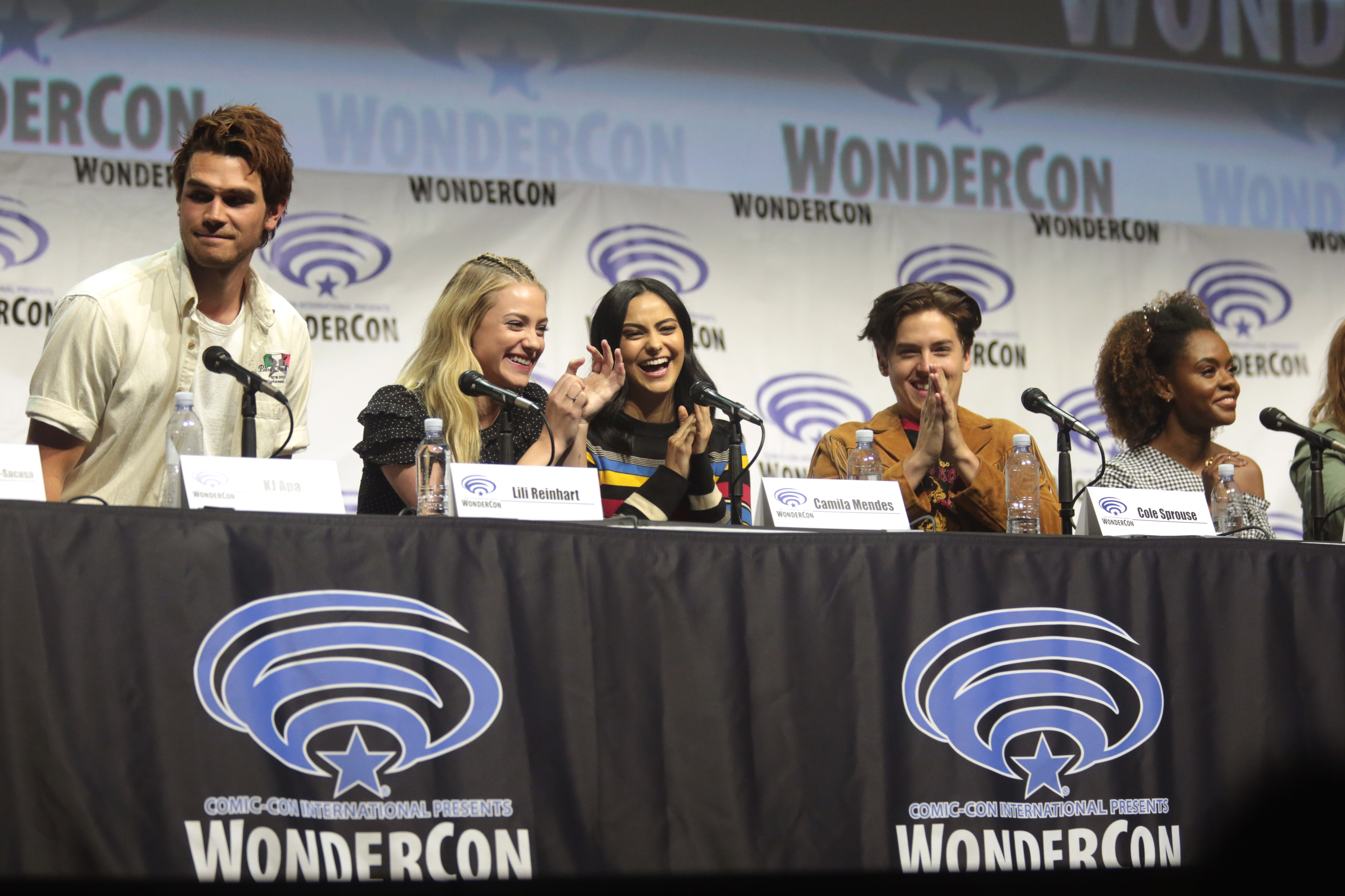 KJ Apa, Lili Reinhart, Camila Mendes, Cole Sprouse and Ashleigh Murray speaking at the 2017 WonderCon, for "Riverdale", at the Anaheim Convention Center in Anaheim, California.